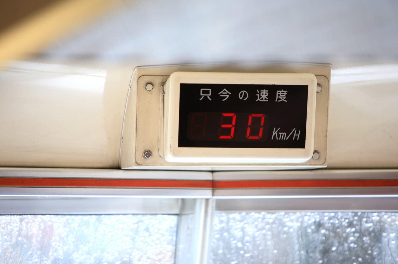 Interior of Meitetsu Panorama Car 7000 series EMU ( Mo 7012 ).